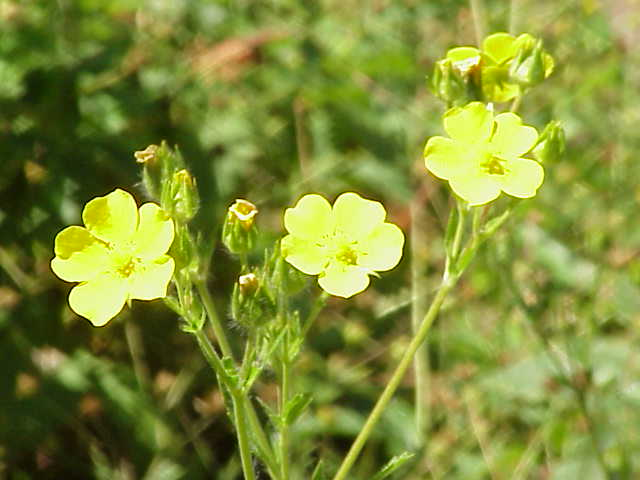 Species: Potentilla collina Family: Rosaceae Image No. 1